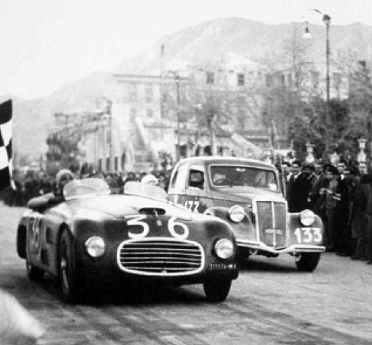 Targa Florio (April 4, 1948).[1] At left, the winner, a Ferrari 166 S by Carrozzeria Allemano, chassis nr. #001S.166 Sport Driven by Igor Troubetzkoy and Clemente Biondetti. At right: A Lancia Aprilia driven by Franco Piccinini & Giannino Marzotto, finishing 16th.